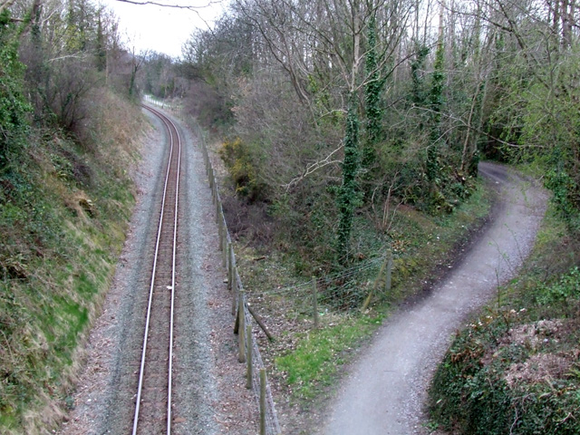 Welsh Highland Railway and Cyclepath The Welsh highland railway has a cycle path that runs alongside it. Here they separate, and rejoin in the far distance